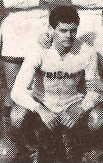 Mircea Neșu in 1962.